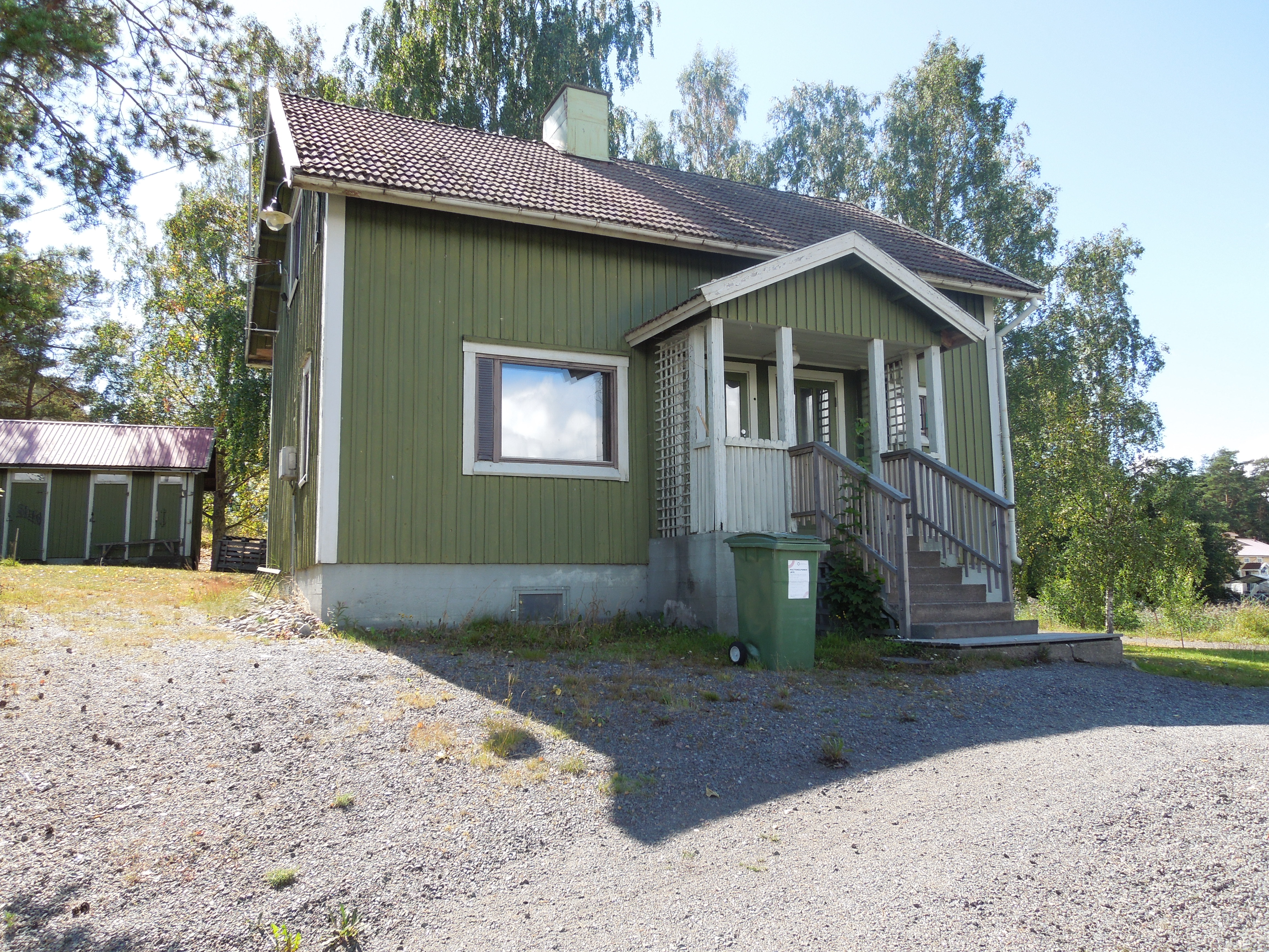 Merimasku's ferry's "lossitupa".